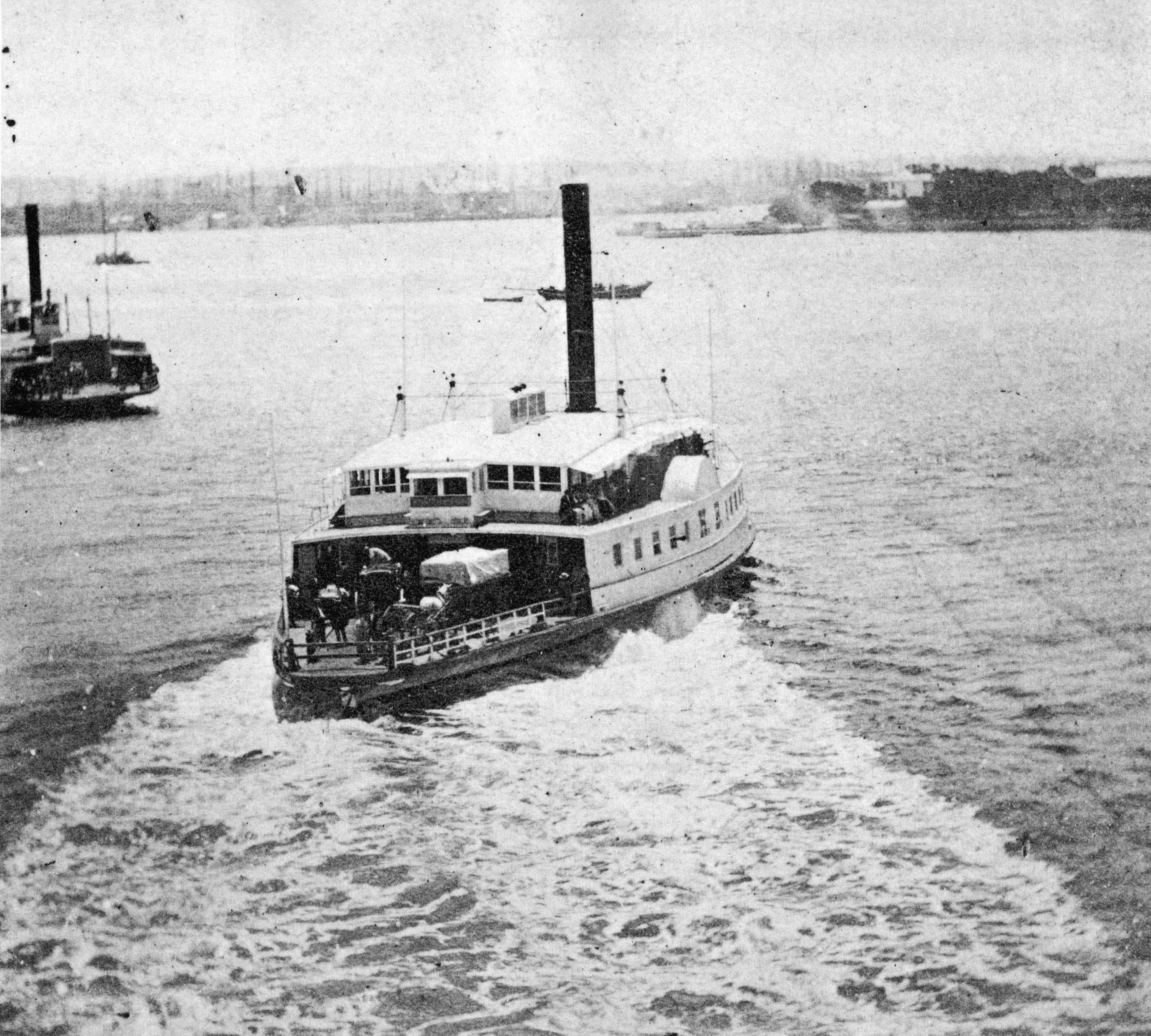 The ferry Hunchback of the New York & Staten Island Ferry Company, 1859. Hunchback was acquired by the U.S. Navy in 1862 and converted into a gunboat, for service during the American Civil War.